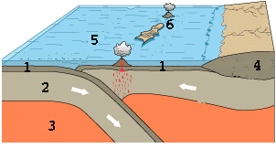 Oceanic-oceanic plate convergence internationalization. 1-Oceanic crust; 2-Lithosphere; 3-Astenosphere; 4-Continental crust; 5-Trench; 6- Island arc.